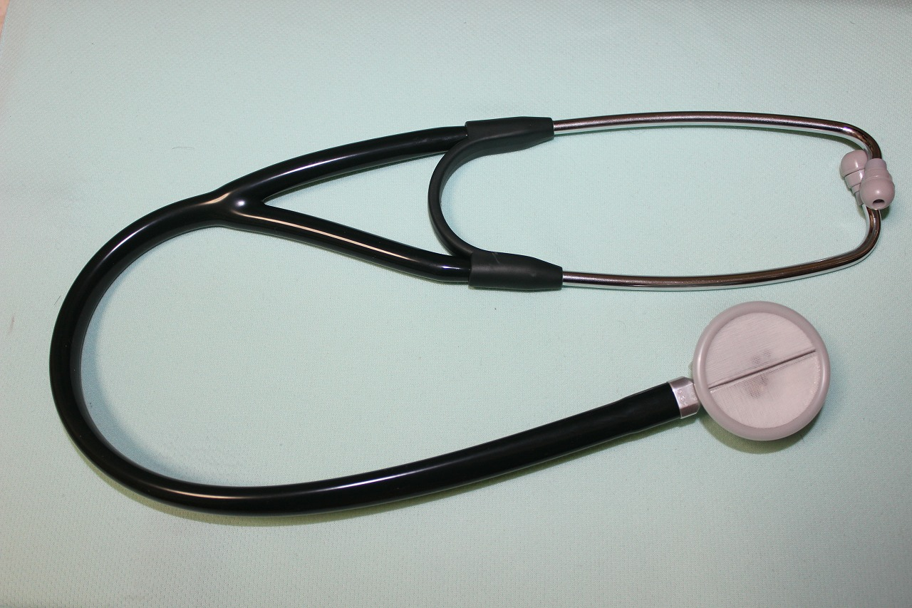 Stereo stethoscope